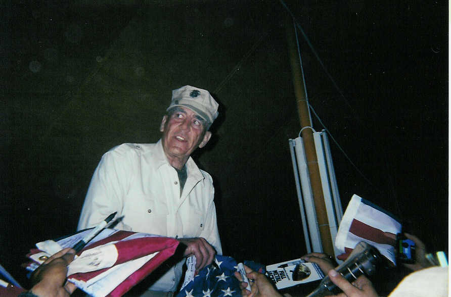 Lee Ermey (Sergeant Hartman in Full Metal Jacket) photographed in Iraq (2003)